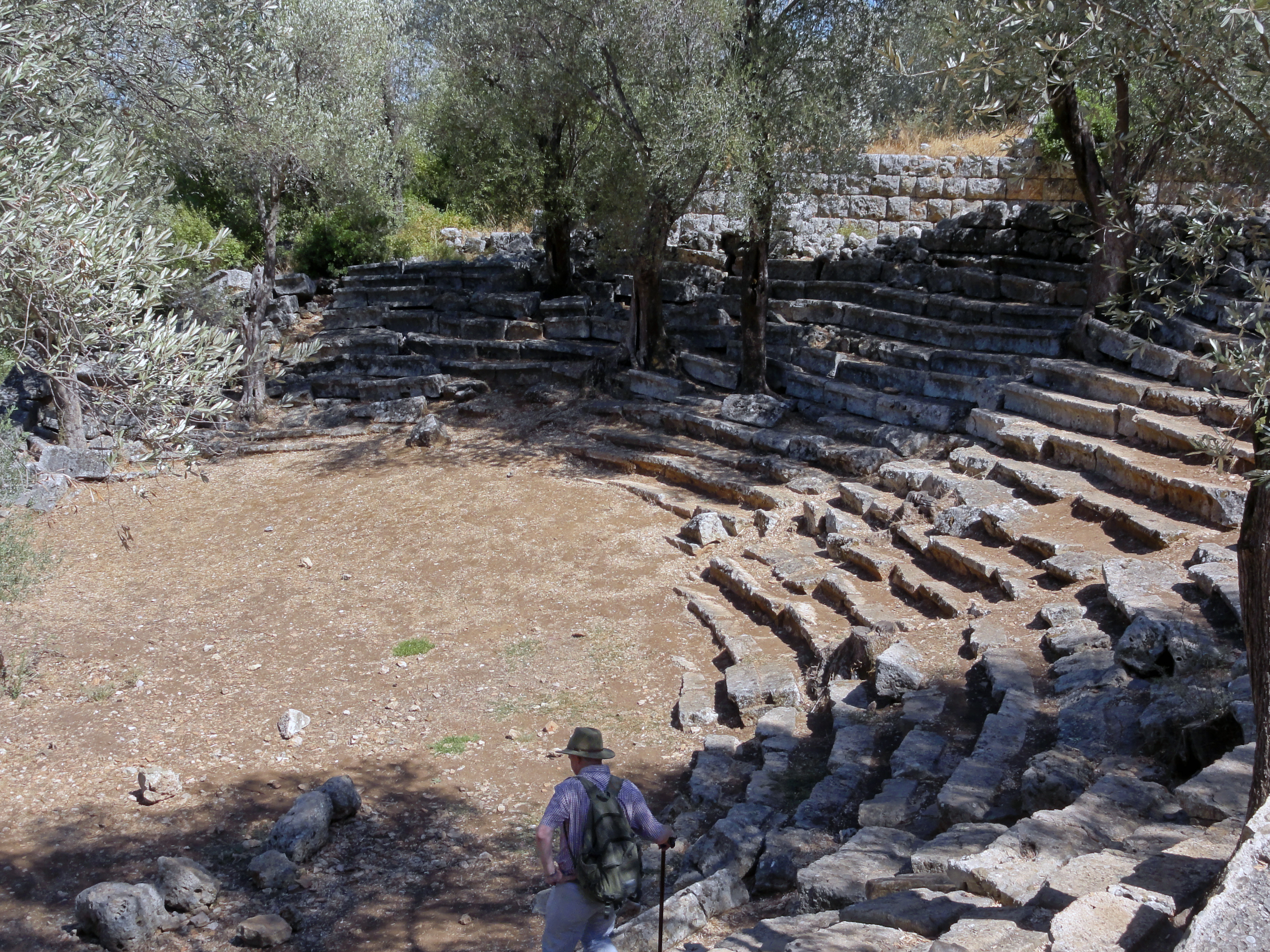 Sedir Island, or Cleopatra's Island, can only be reached by boat and is near Marmaris, Turkey. The theatre is atmospheric and a good place to shelter from the sun. The nearby Cleopatra's beach is protected by the government with the island itself controlled as a historic site of special interest with an entry charge from the docks.